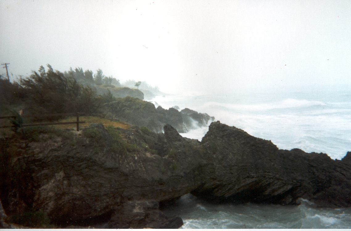 The Coast of Callan Glen, east of Bailey's Bay, The Somers Isles (alias Bermuda). Seán Pòl Ó Creachmhaoil